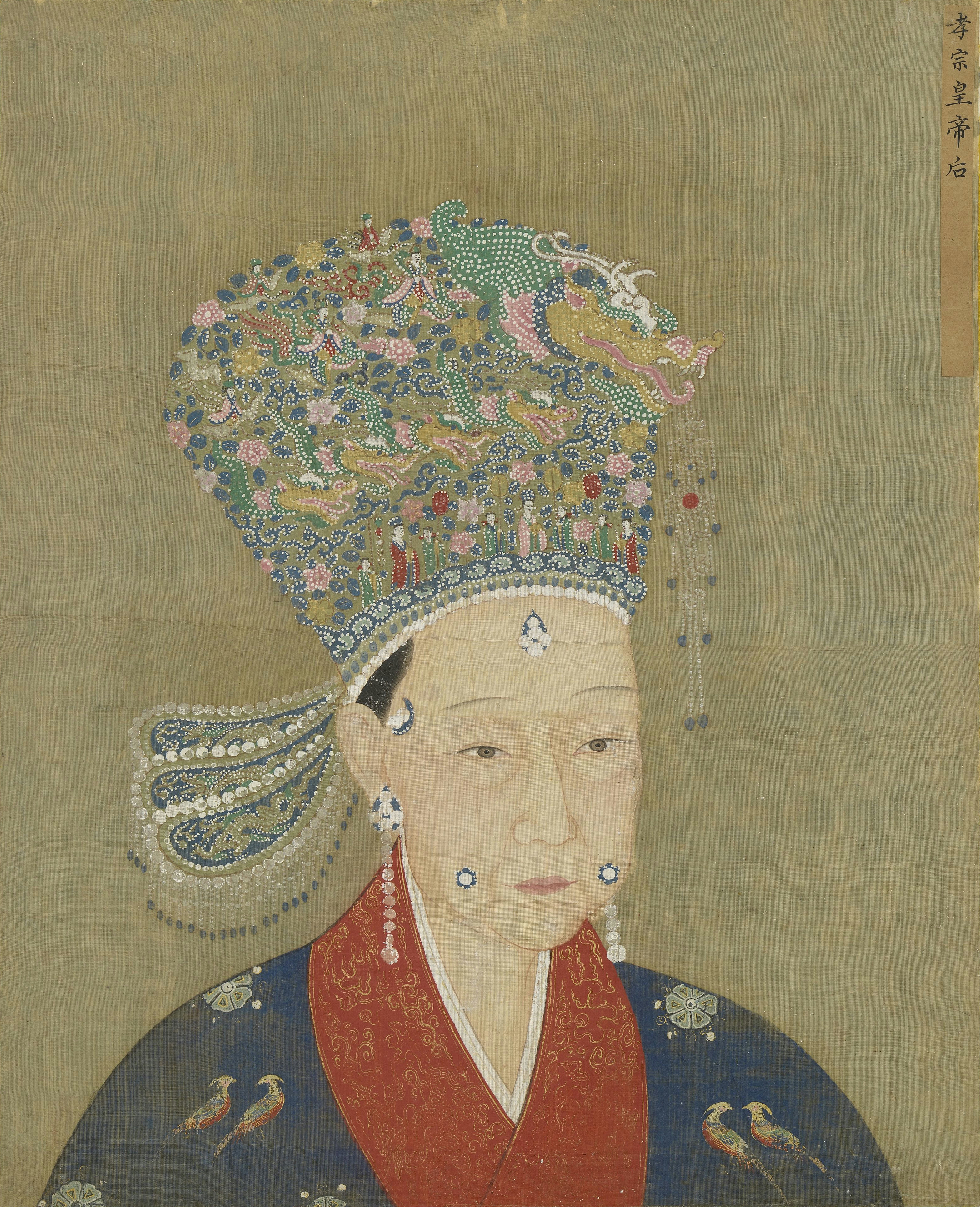 The Official Imperial Portrait of Song Dynasty's Empress